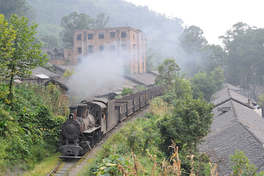 Jiayang Coal Railway C2 07